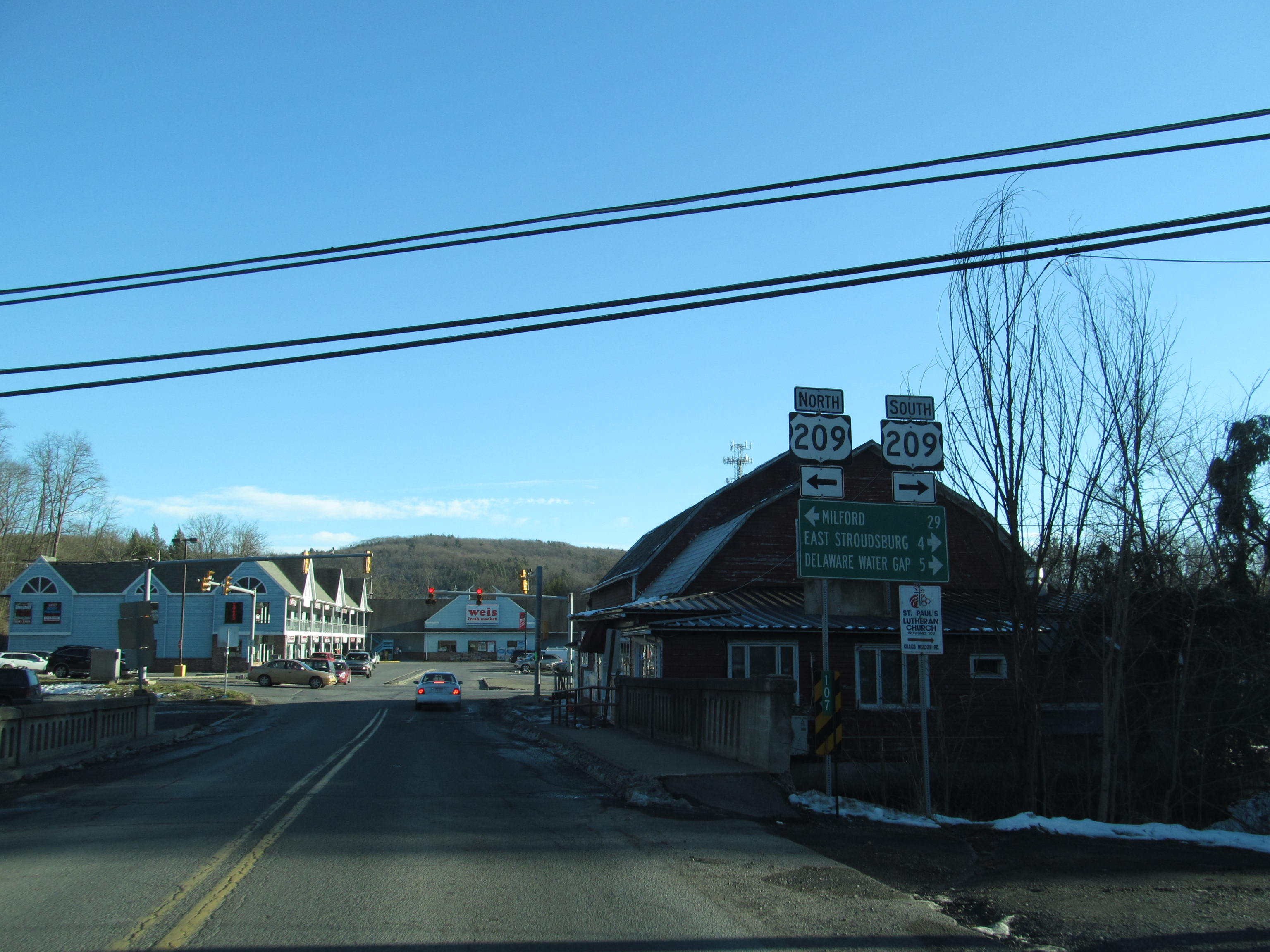 Pennsylvania State Route 402 at the junction with U.S. Route 209 Business in Marshalls Creek, Pennsylvania.